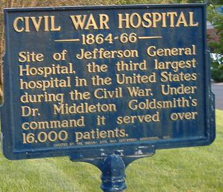 Historical Marker denoting where Jefferson General Hospital was in Port Fulton, now Jeffersonville, Indiana.